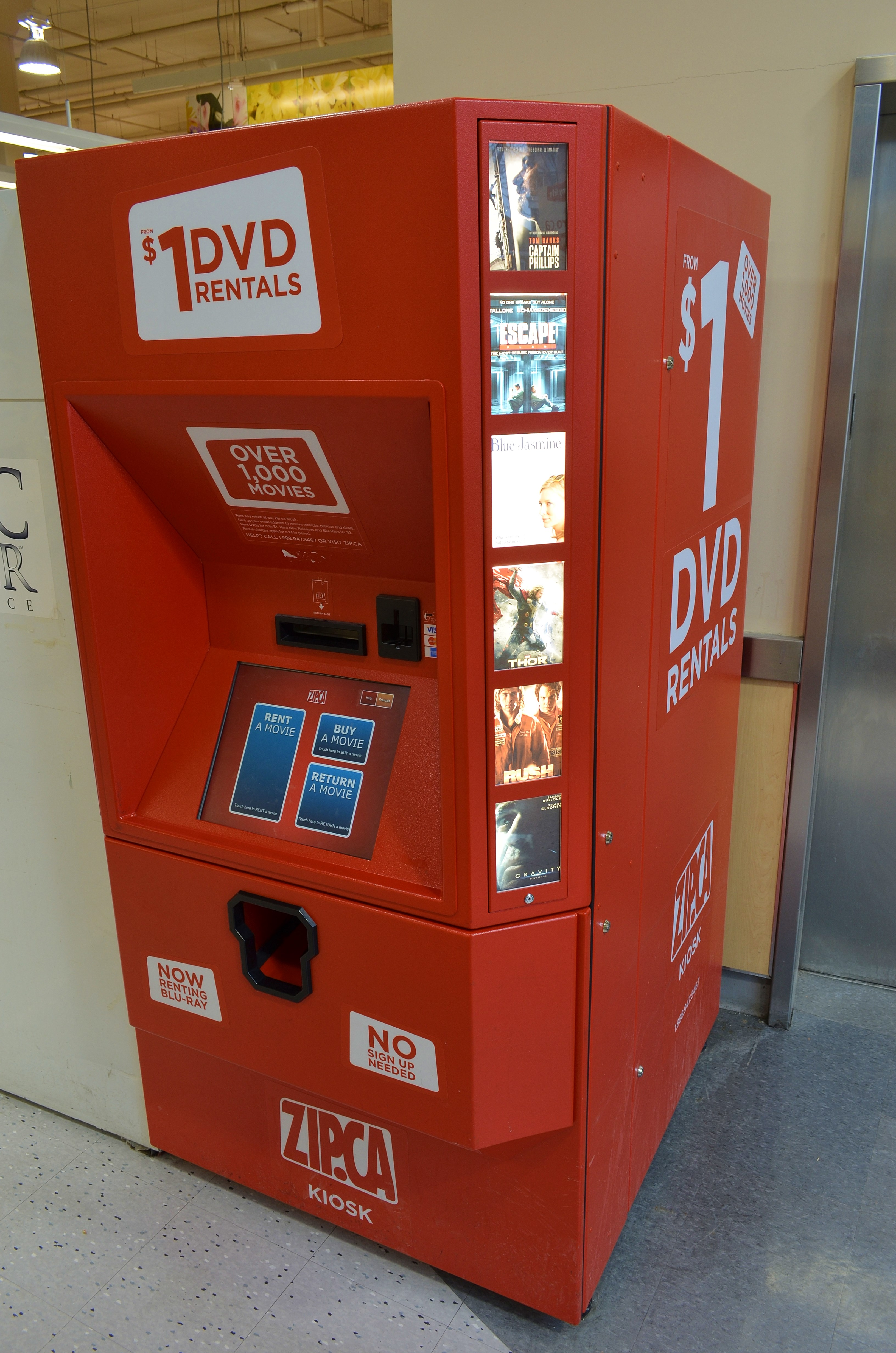 Zip.ca DVD kiosk